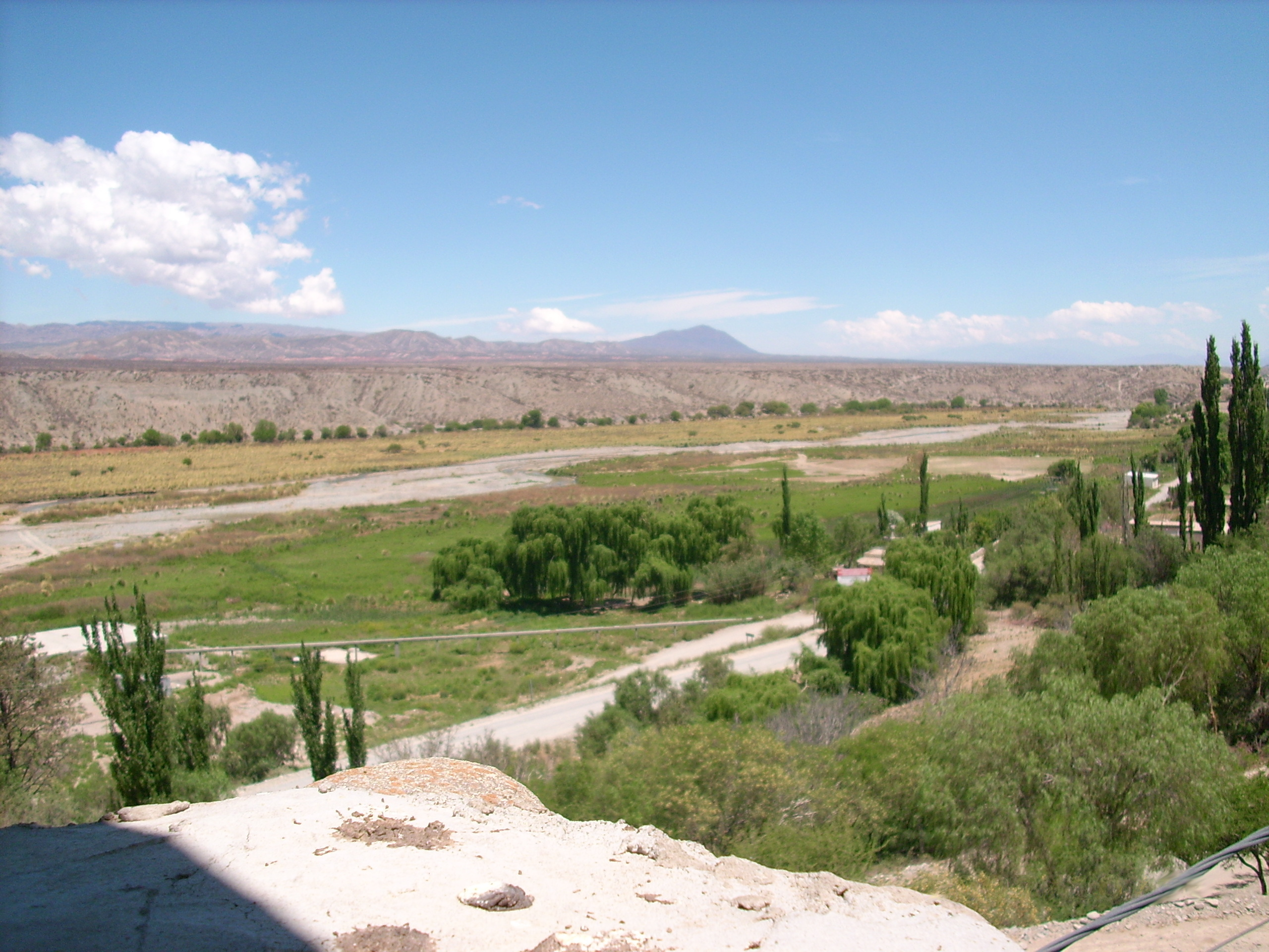 a view from Automovil Club Argentino